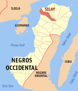 Map of Negros Occidental showing the location of Silay